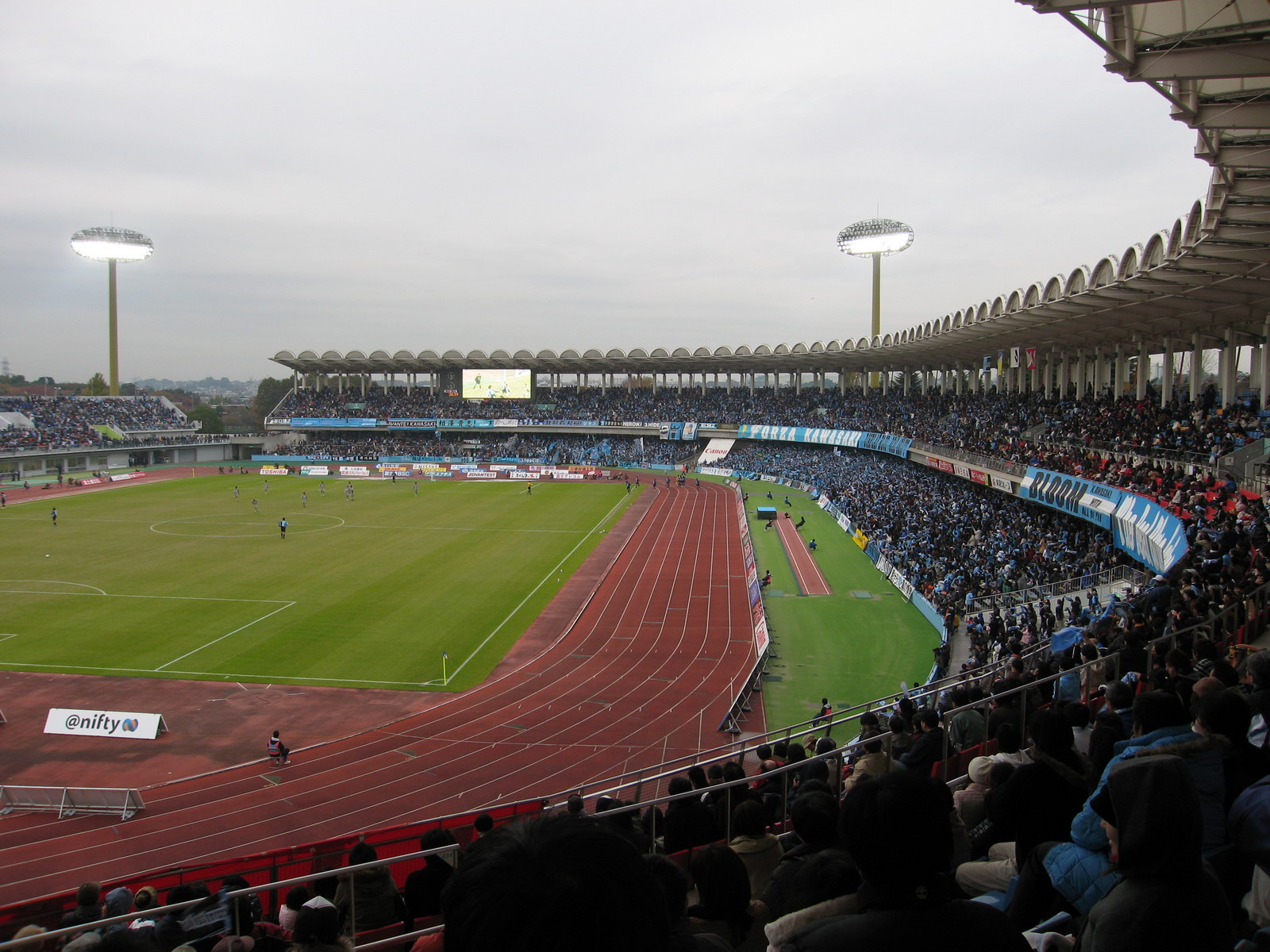 Todoroki Athletics Stadium